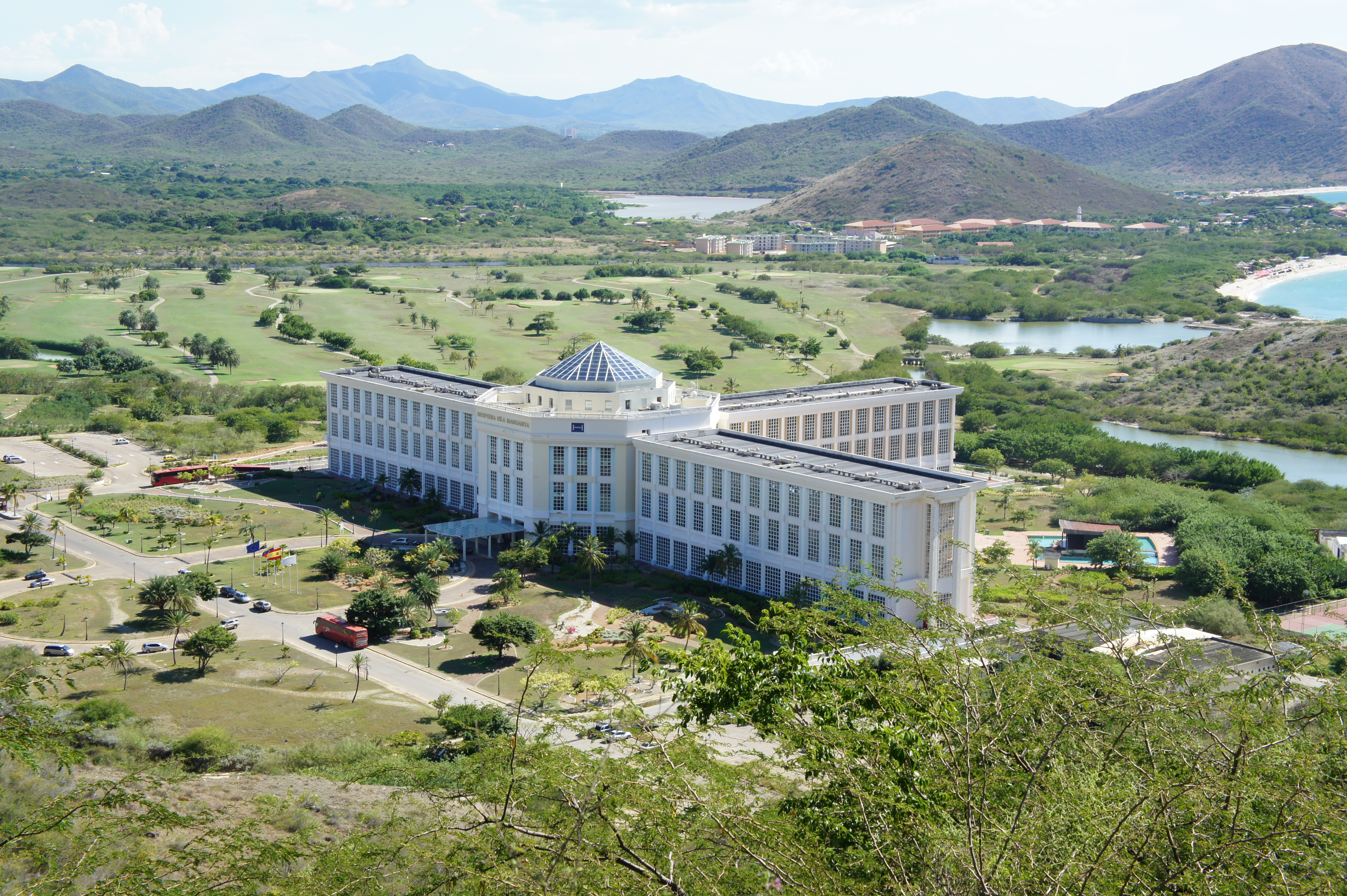 Viajes